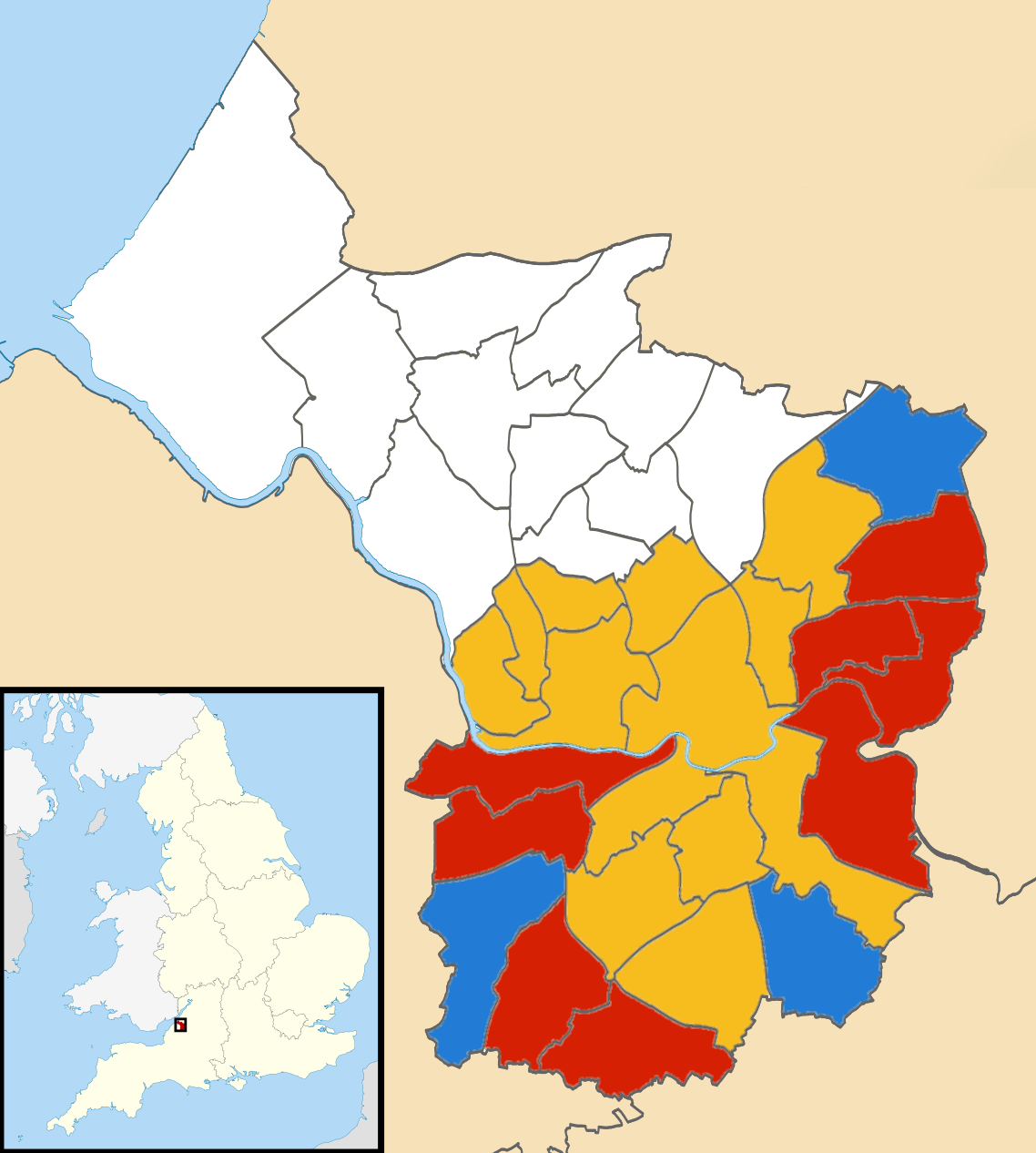 Results of the 2003 local elections in Bristol Colours: Conservative Labour Liberal Democrat No election in 2003